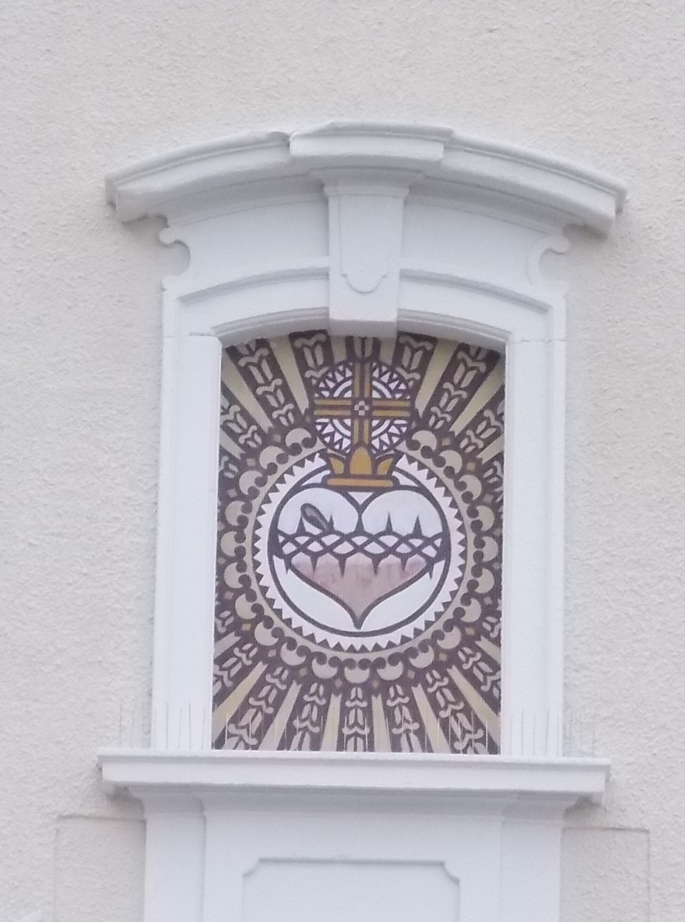 Sacred Heart Church - Mindszenti Square, Gyártelep neighborhood, Dunakeszi, Pest County, Hungary.